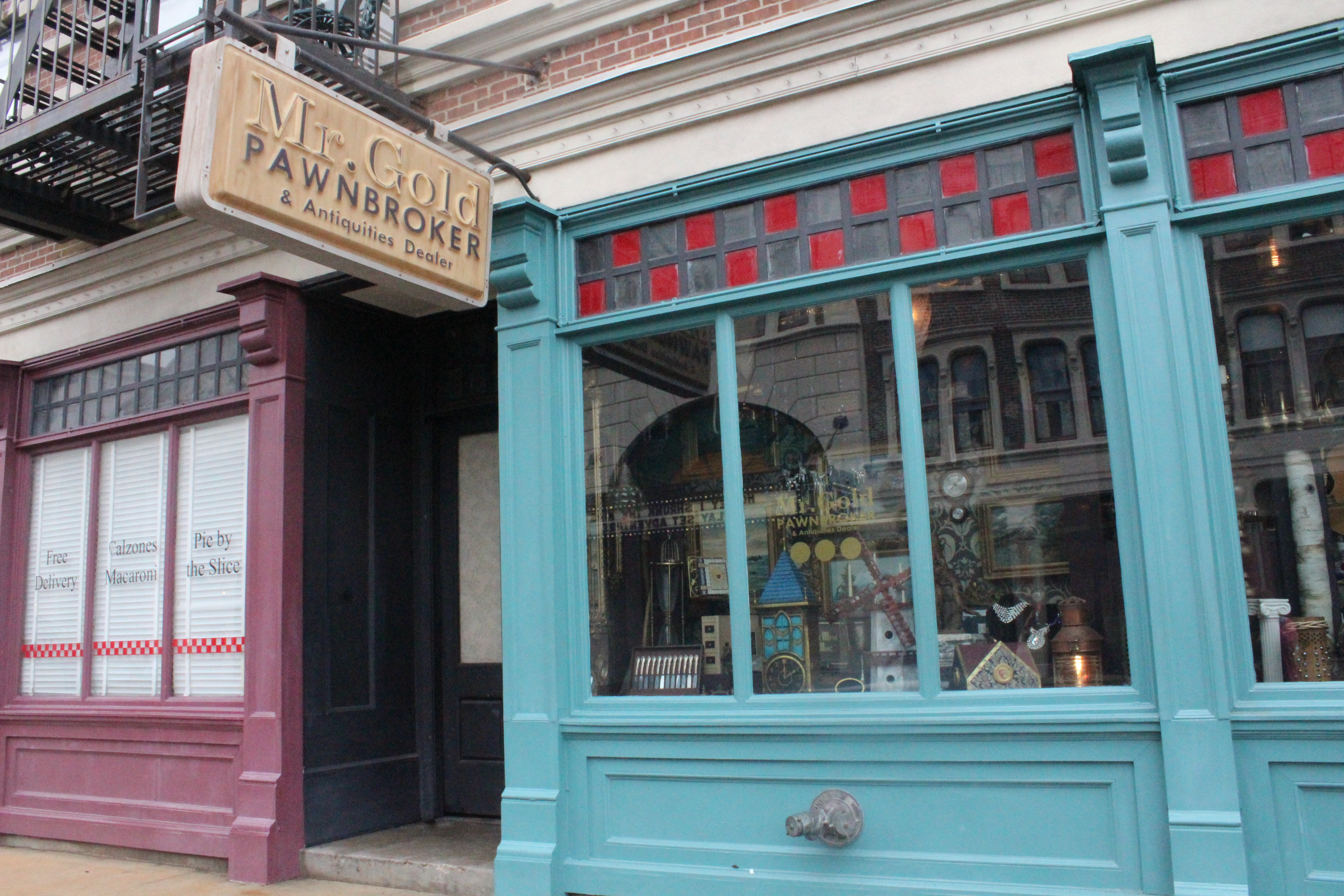 Mr. Gold's Shop (from Once Upon A Time) on Streets of America at Disney's Hollywood Studios